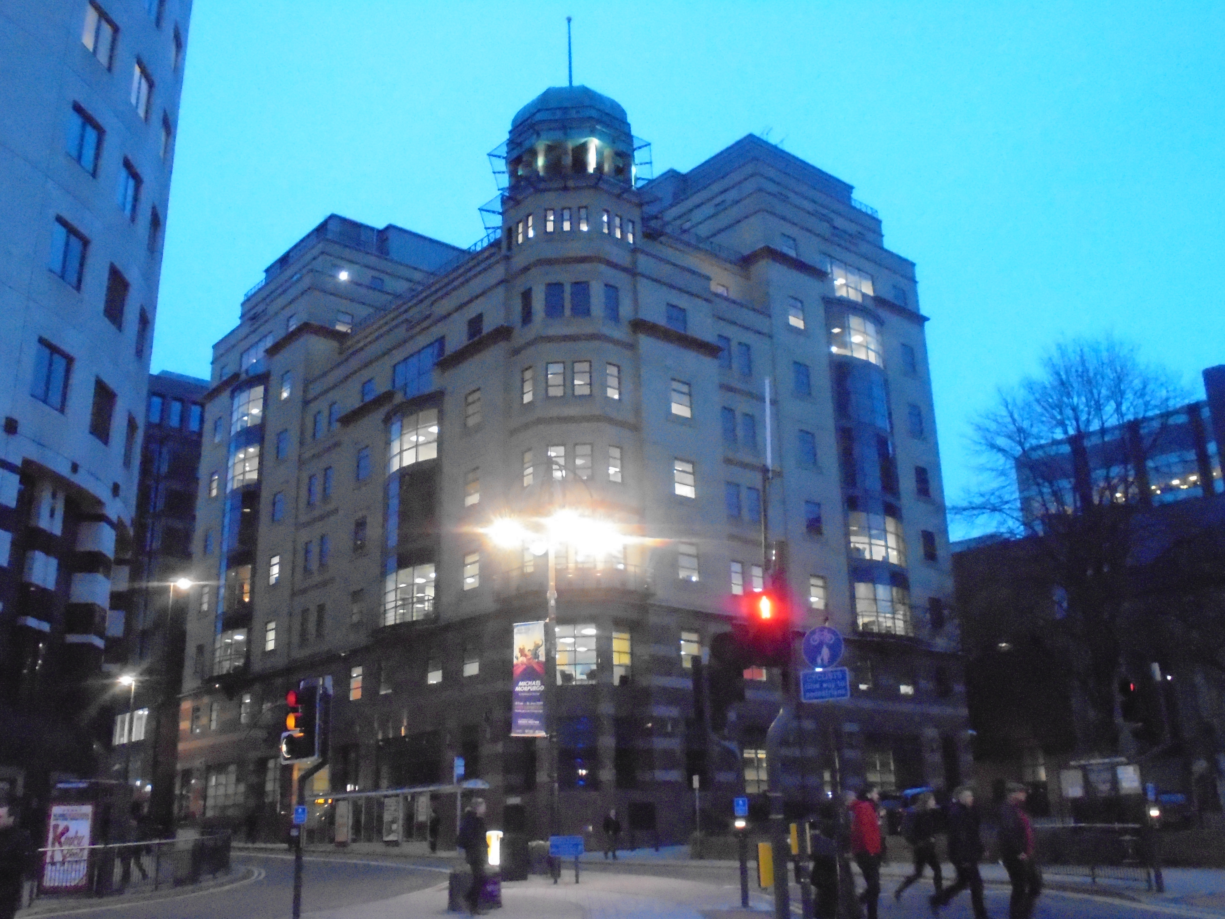 Pinsent Masons, Park Row (seen from City Square), Leeds, West Yorkshire. Taken on the evening of Tuesday the 12th March 2019.